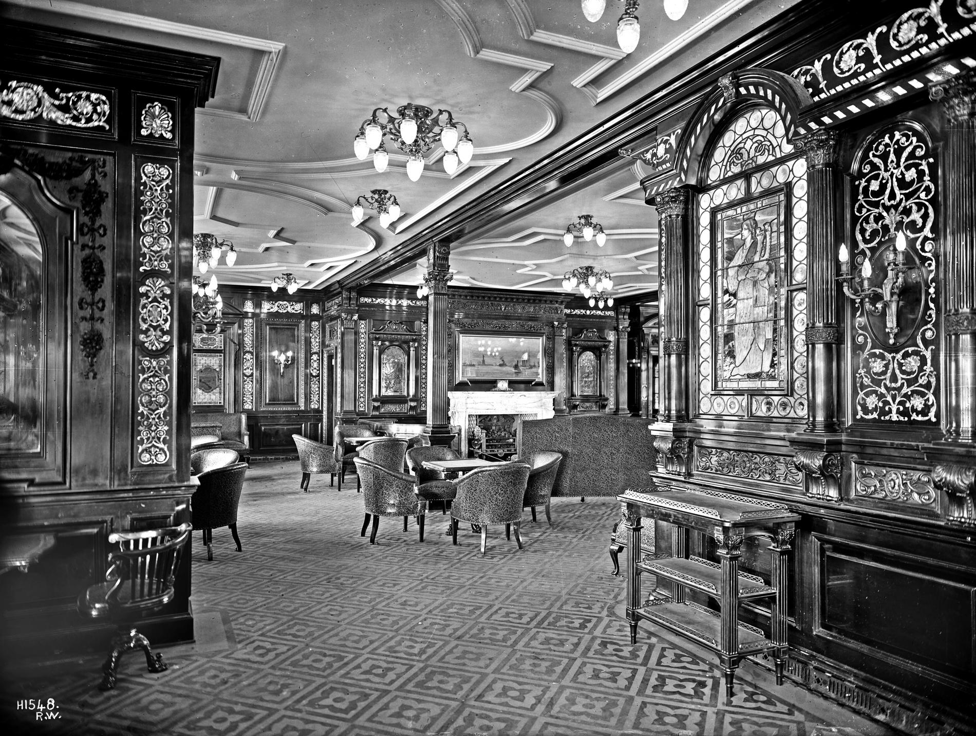 The RMS Olympic 's smoke room, very similar to Titanic 's. A picture taken from the starboard side of the first class smoke room, reserved for gentlemen only. This room was also the place where Harland & Wolff director Thomas Andrews was last seen as the Titanic sank.